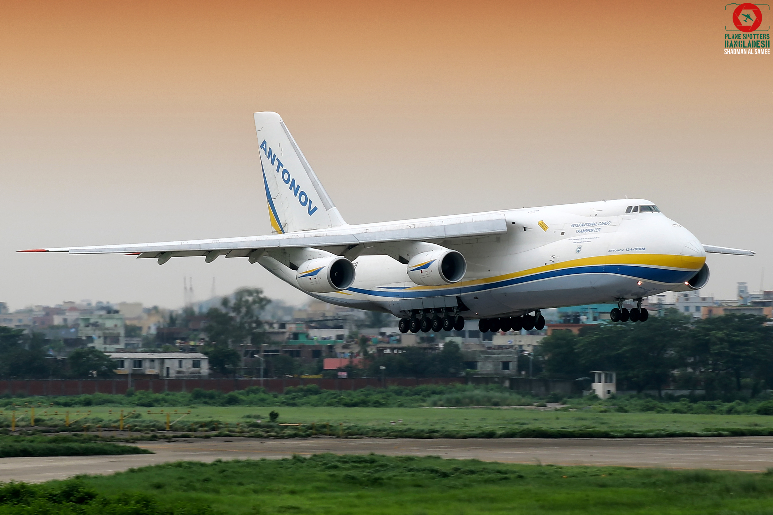 VGHS 2018: Finally caught one of these after so long!